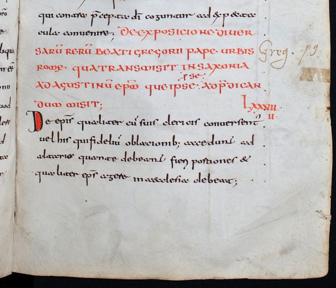 Photograph of a page from a medieval canon law manuscript (written ca 800, probably in Chur). Image obtained from the Württembergische Landesbibliothek's Collection of digital manuscript images (